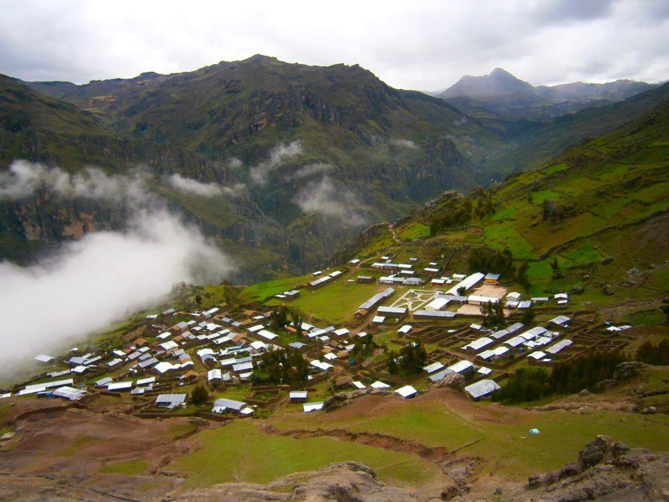 CENTRO POBLADO DE COCHAMARACA